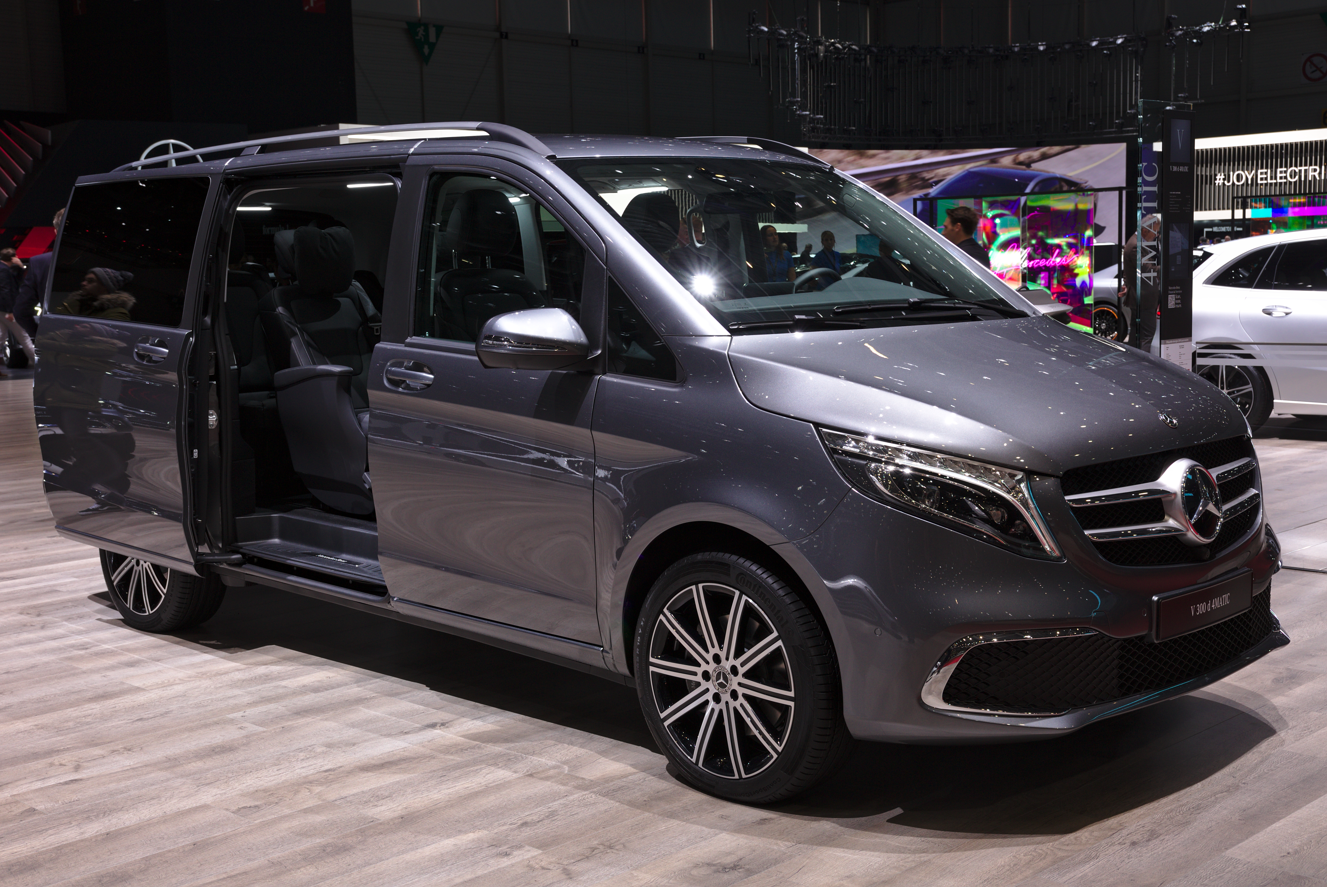 Mercedes-Benz V 300 d 4Matic at Geneva Motor Show 2019